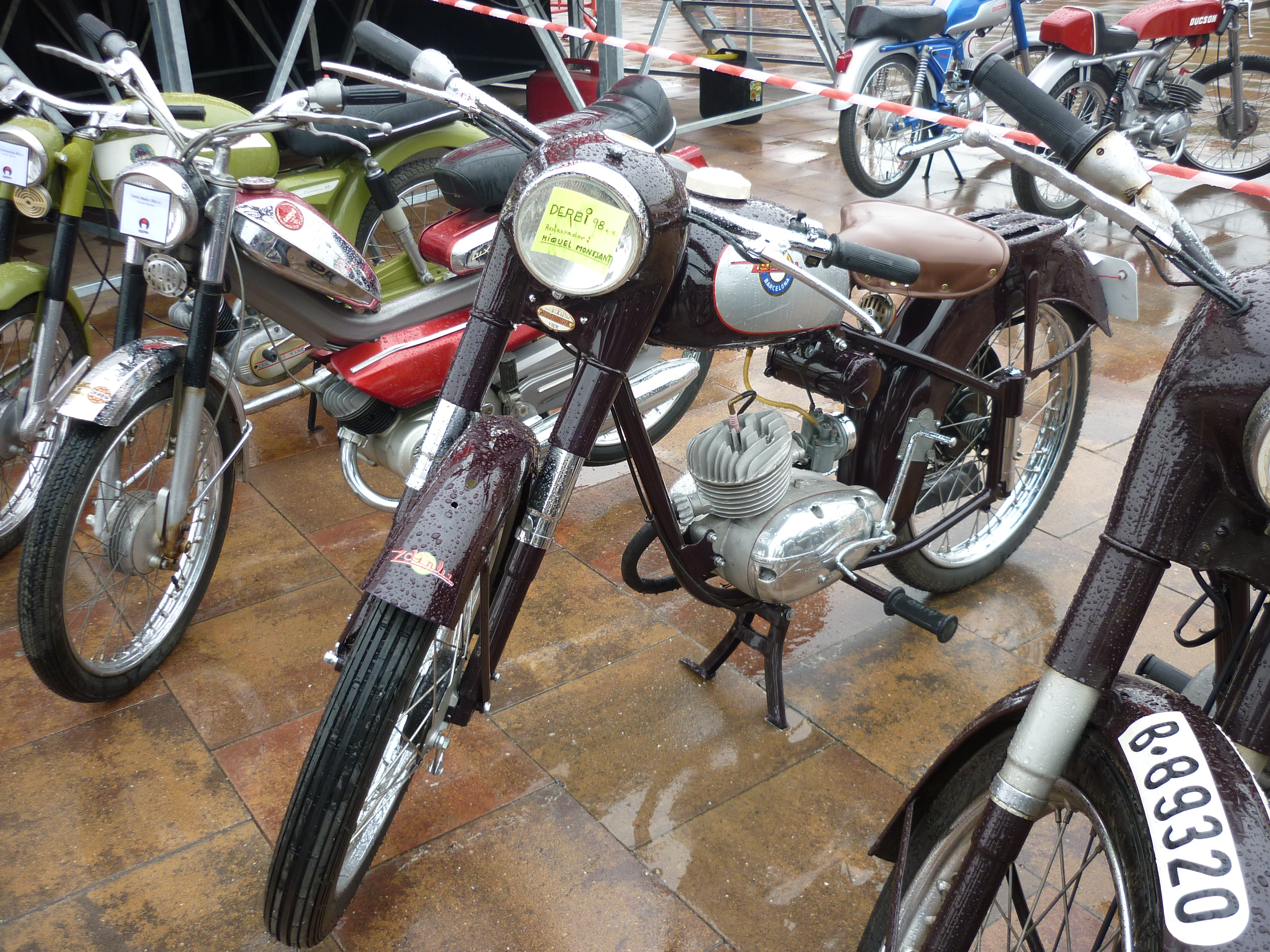 Derbi 98, 1955